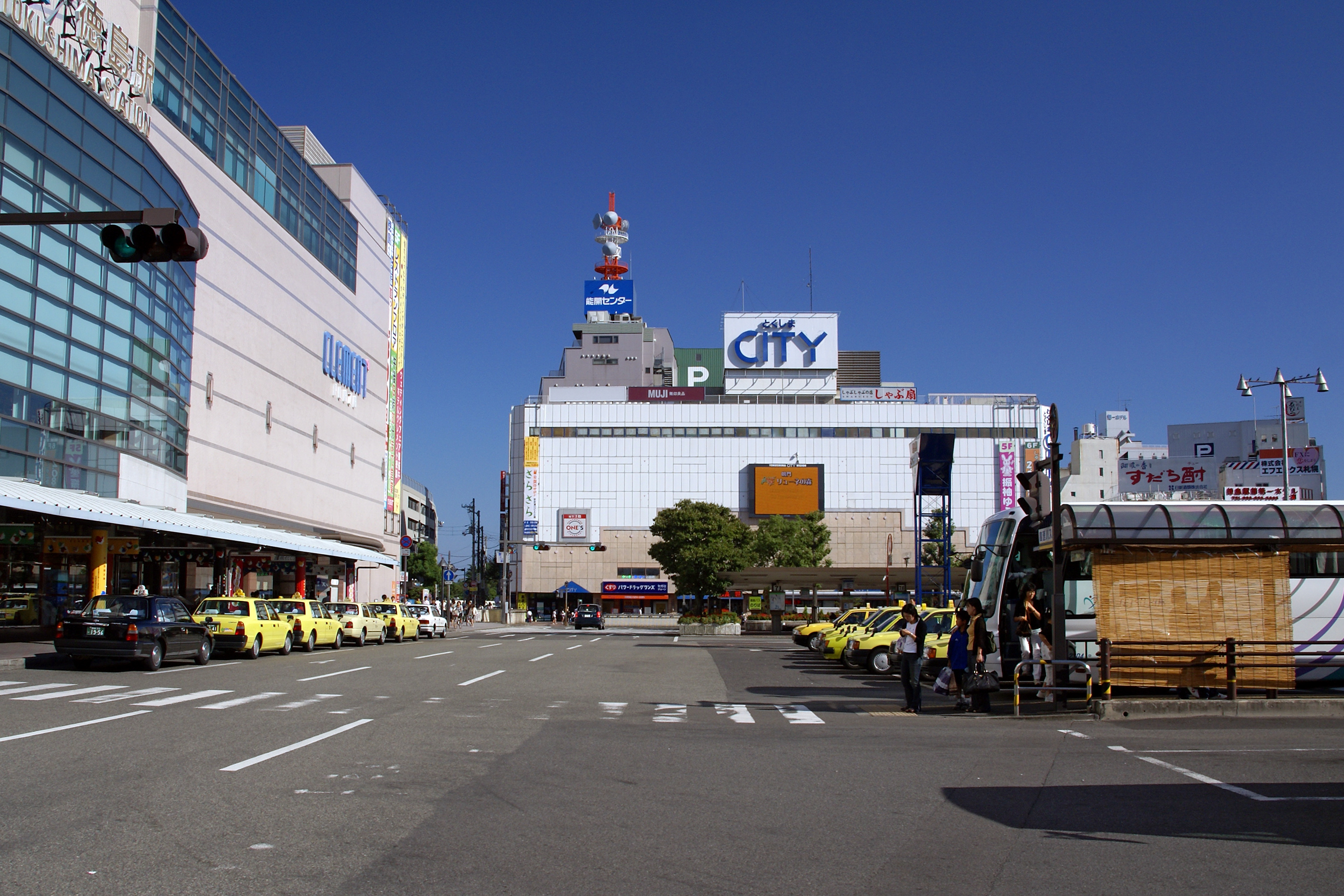 Tokushima CITY in Tokushima, Tokushima prefecture, Japan